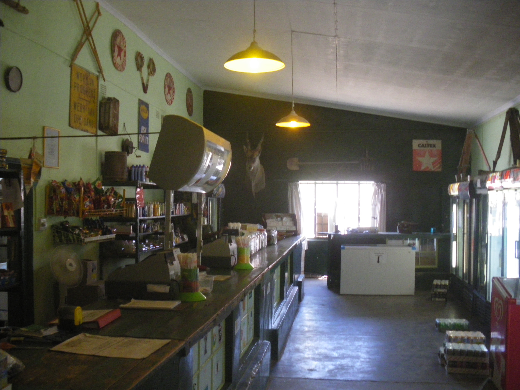 Solitaire, Namibia, town of Namibia.